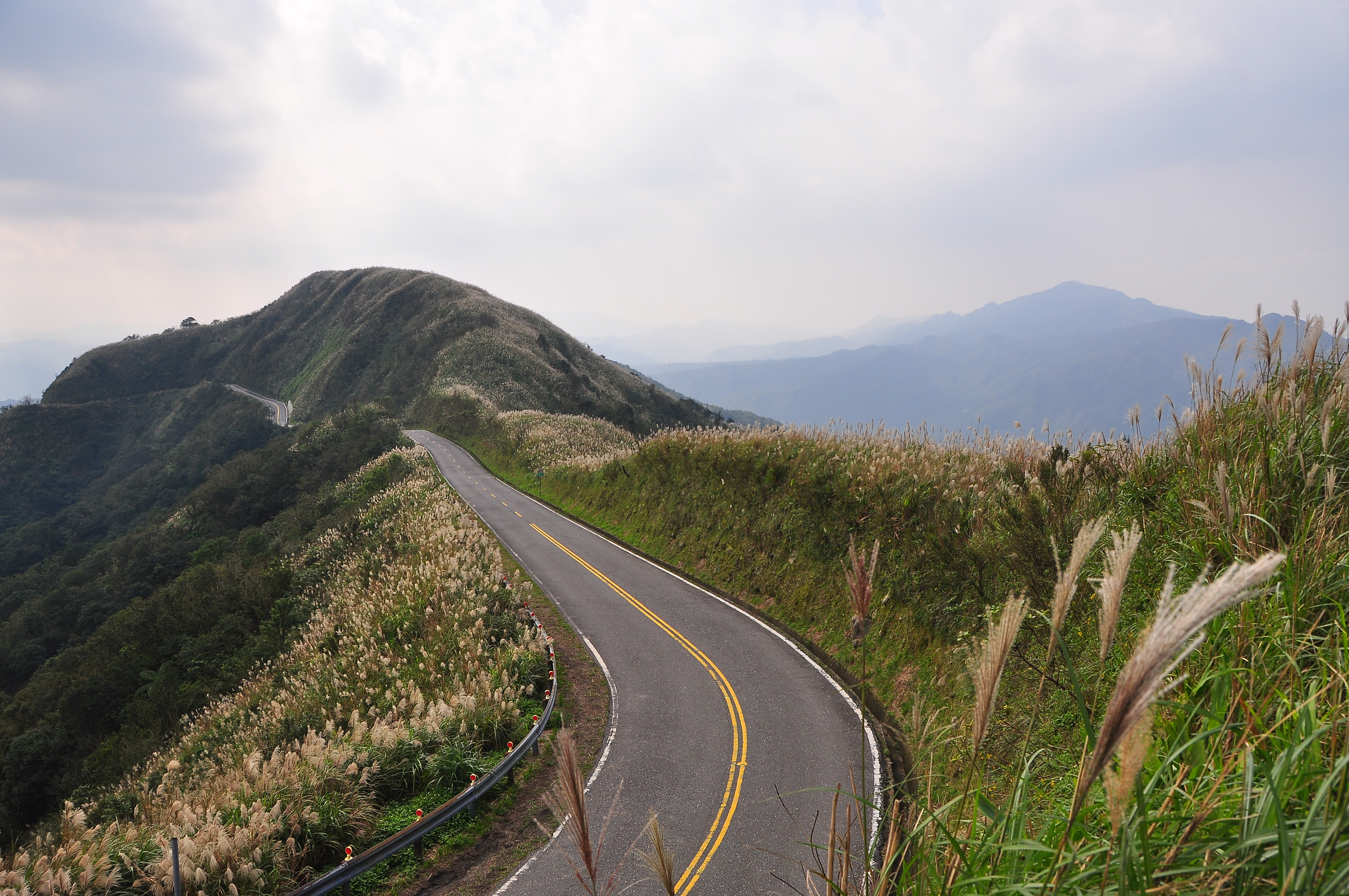 City Highway 102 with blossom miscanthus on both side.